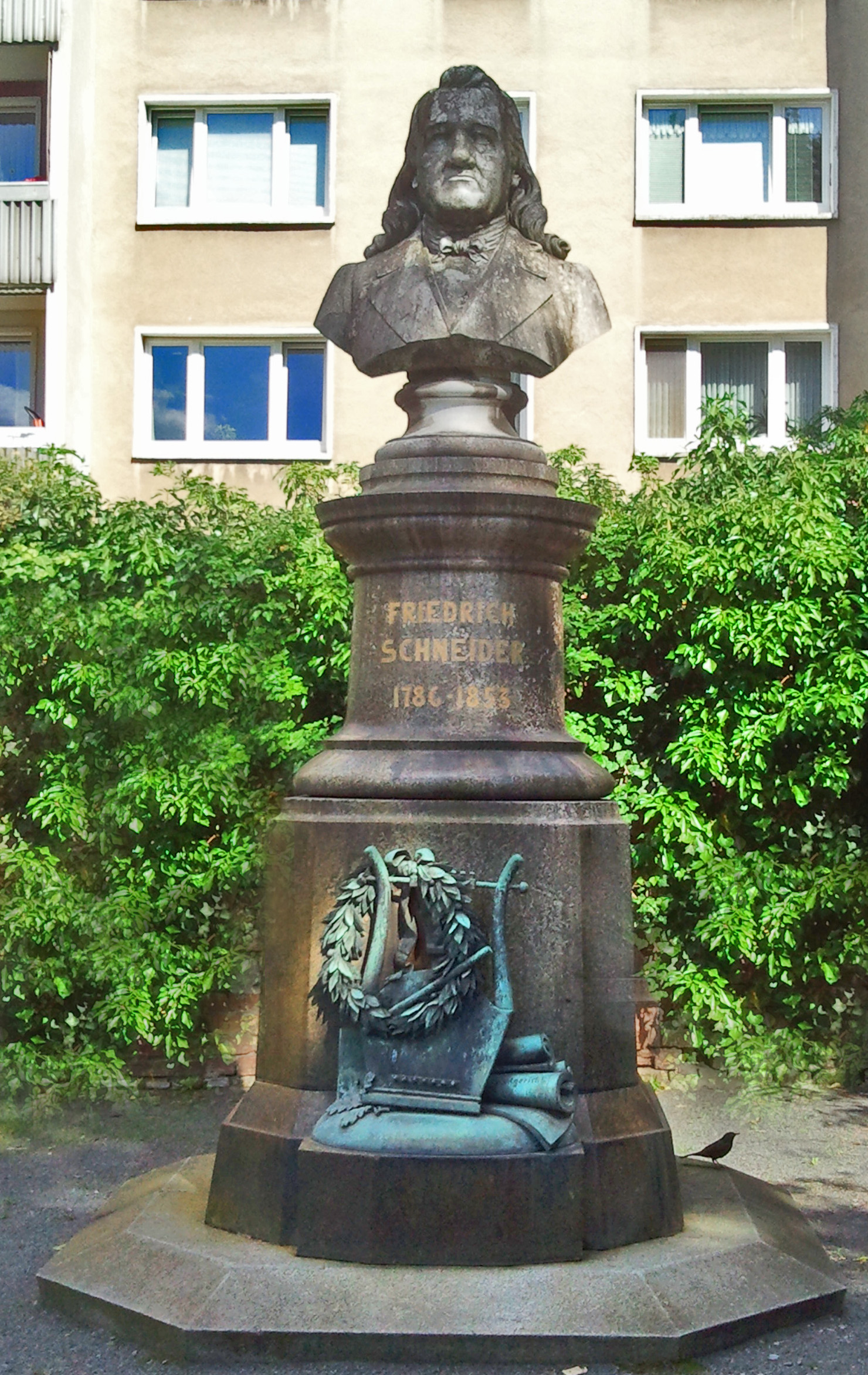 Memorial of Friedrich Schneider at the Dessau Stadtpark